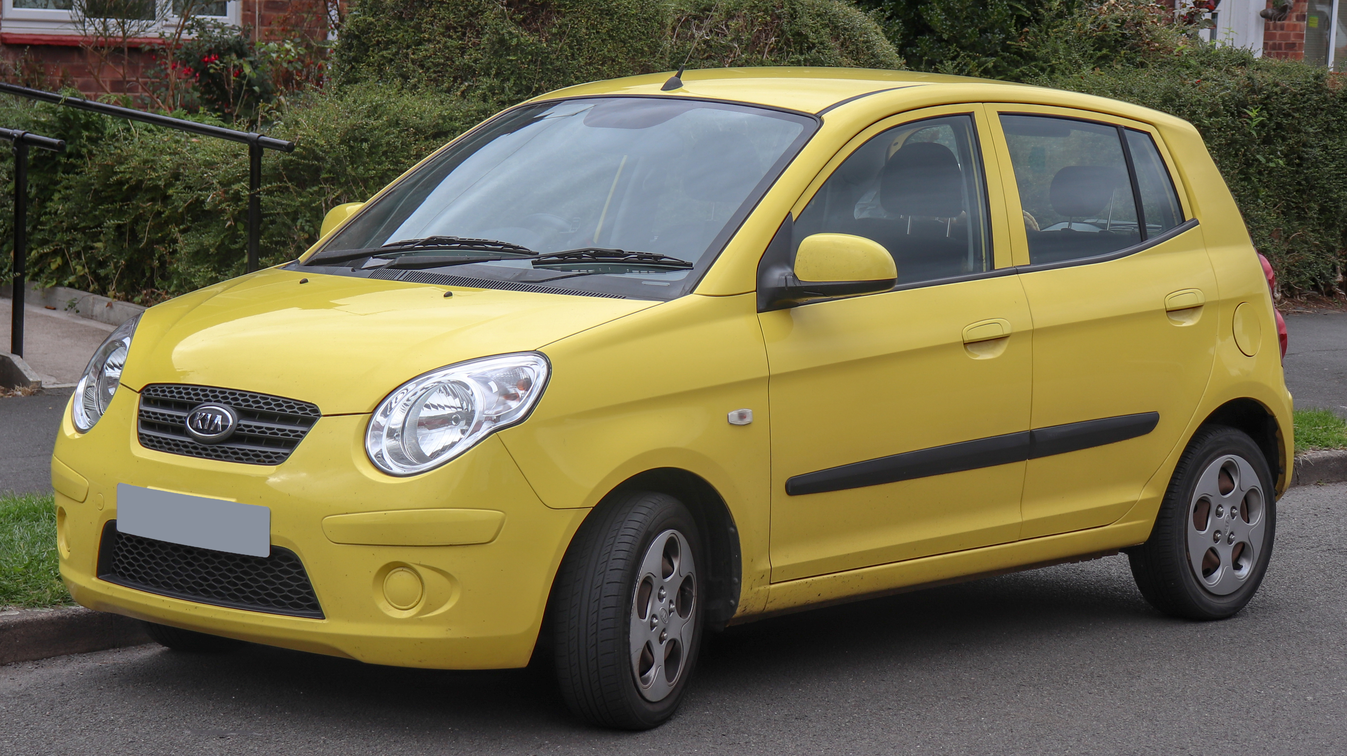 2009 Kia Picanto Strike 1.1 Front Taken in Whitnash